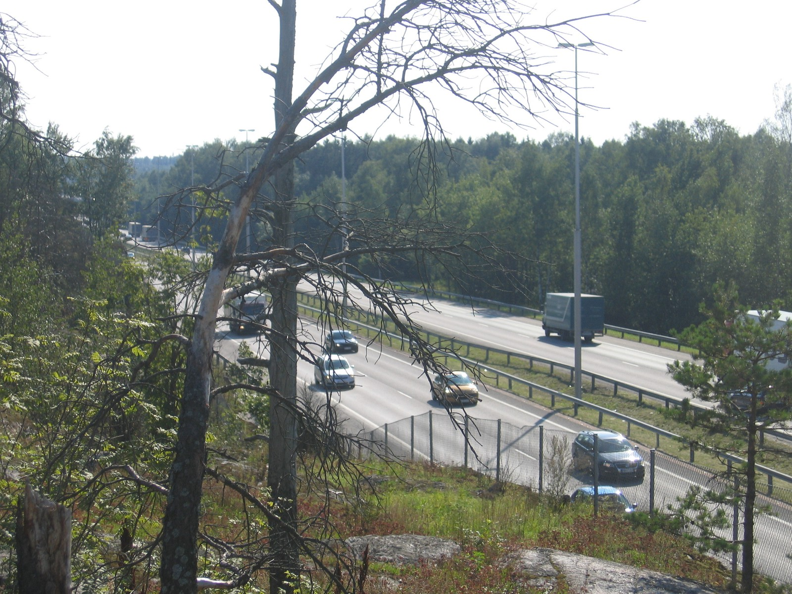 Lahdenväylä motorway (national road 4, E75) at Jakomäki in Helsinki, Finland.